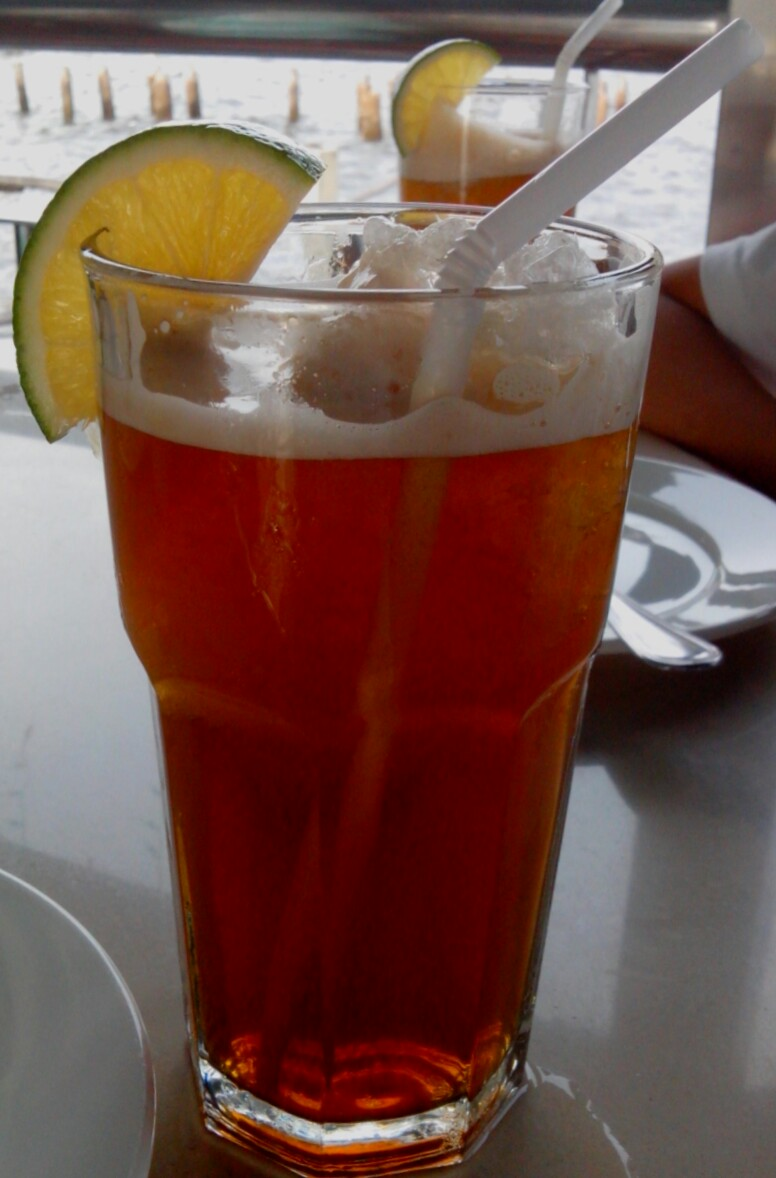 Iced Tea with Lemon Slice